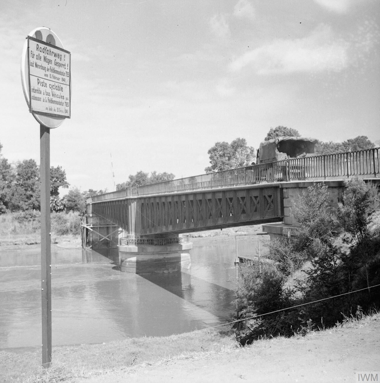 The Orne River Bridge near Caen, a vital bridge which was held by glider troops until the main body of invasion forces were able to reach them.